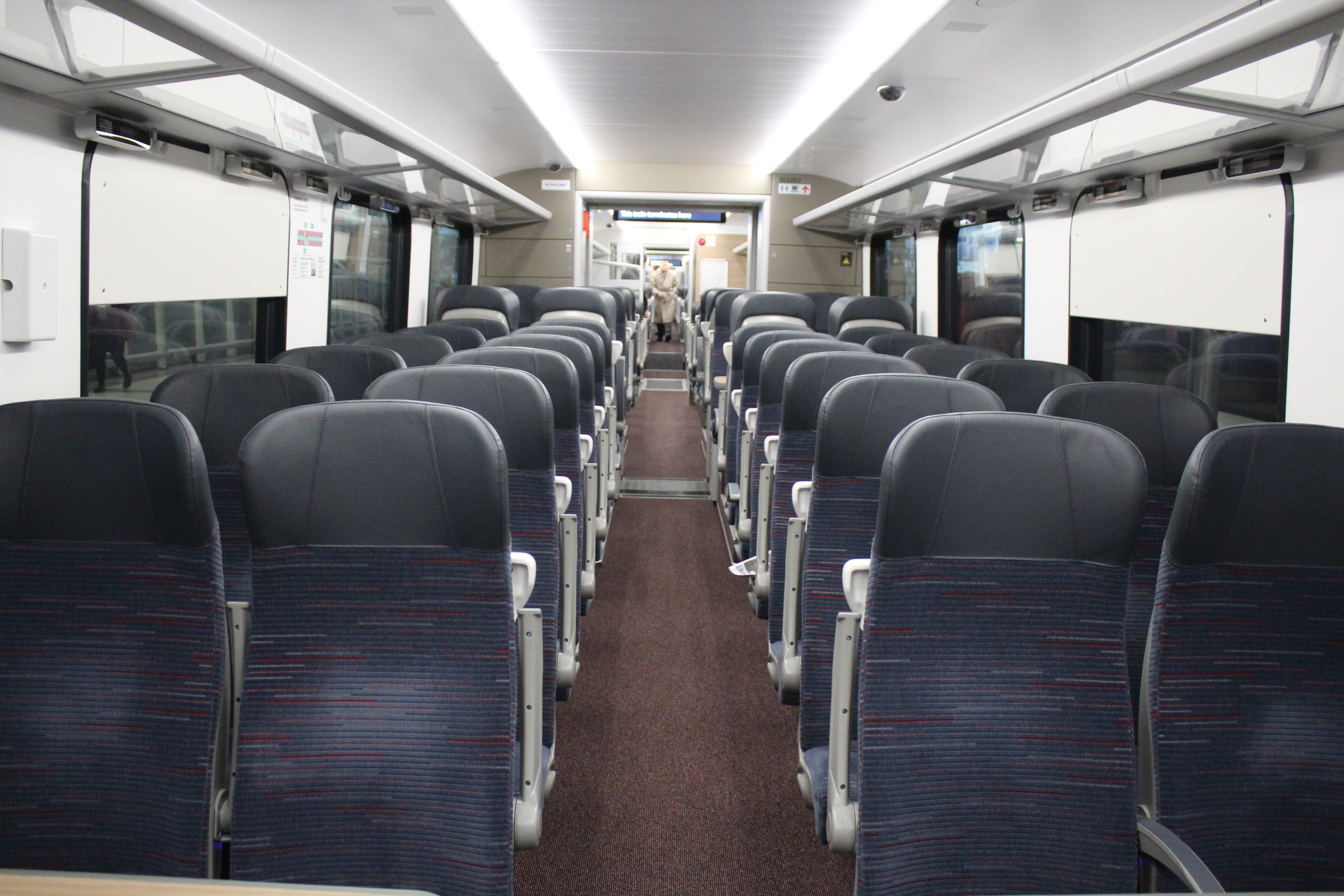 The standard class interior on-board a Greater Anglia Class 745 'FLIRT'. This is taken on-board unit 745007.